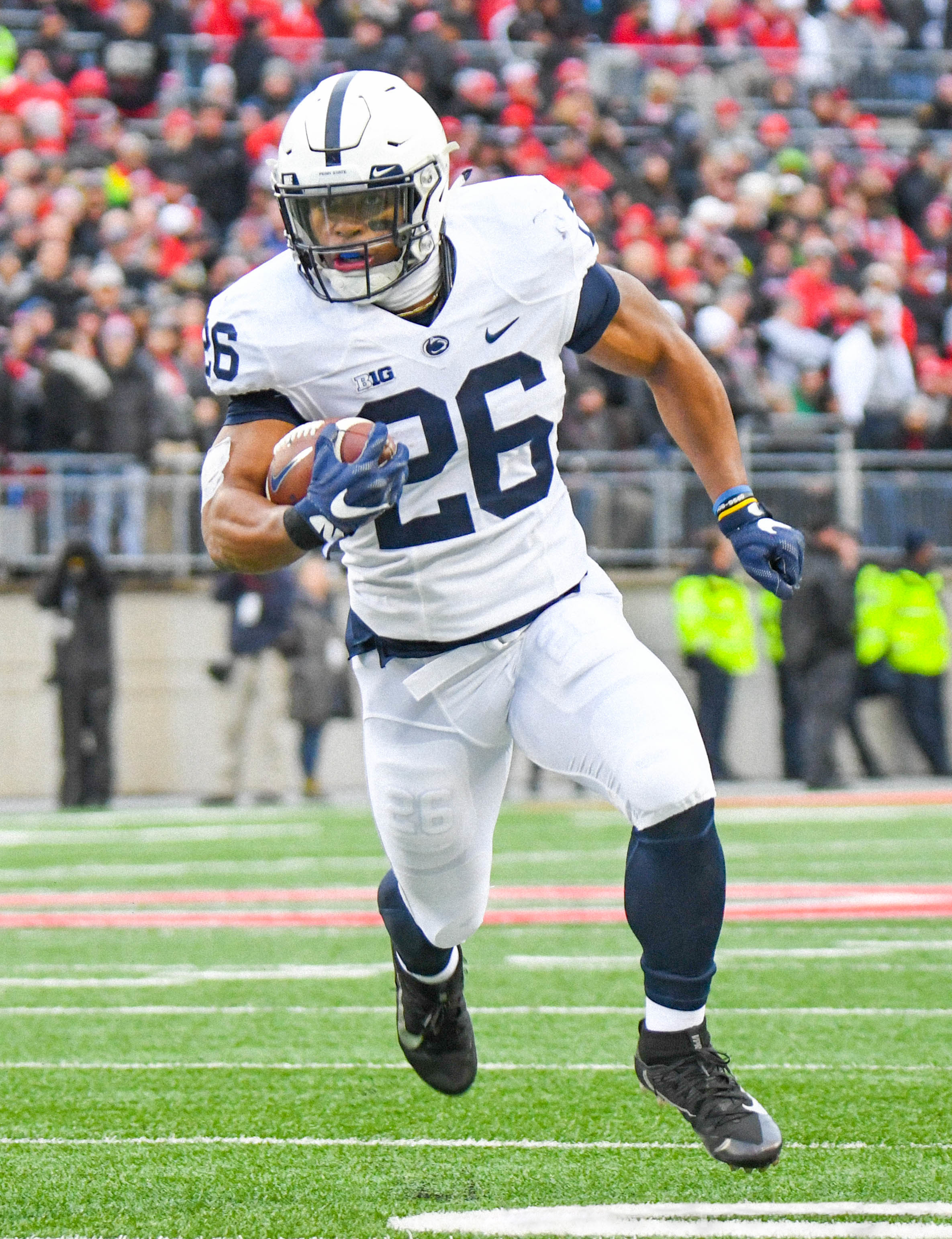 Saquon Barkley. Penn State versus Ohio State. October 28, 2017